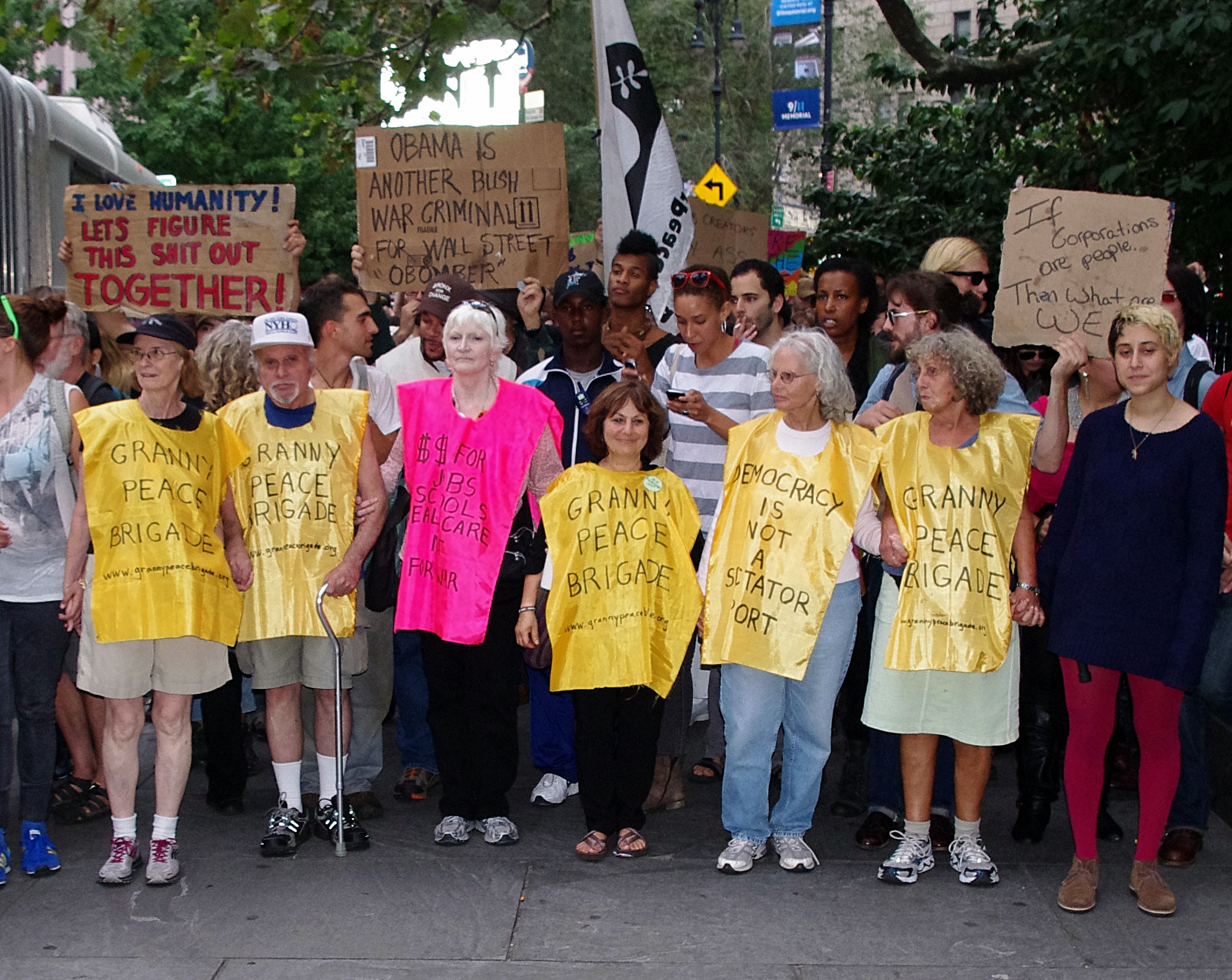 Friday, Day 14 of Occupy Wall Street - photos from the camp in Zuccotti Park and the march against police brutality, walking to One Police Plaza, headquarters of the NYPD.